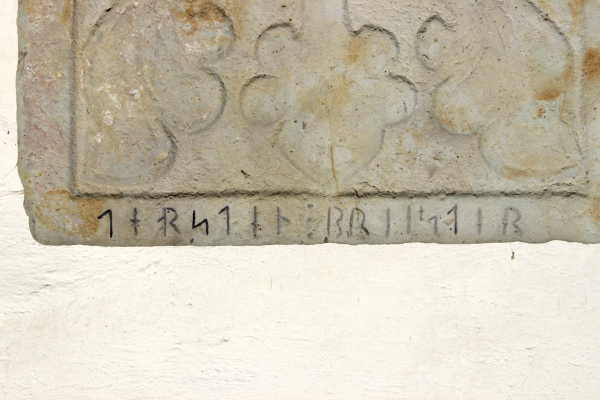 Vg 10 Liljesten med runinskrift närbild av inskrift